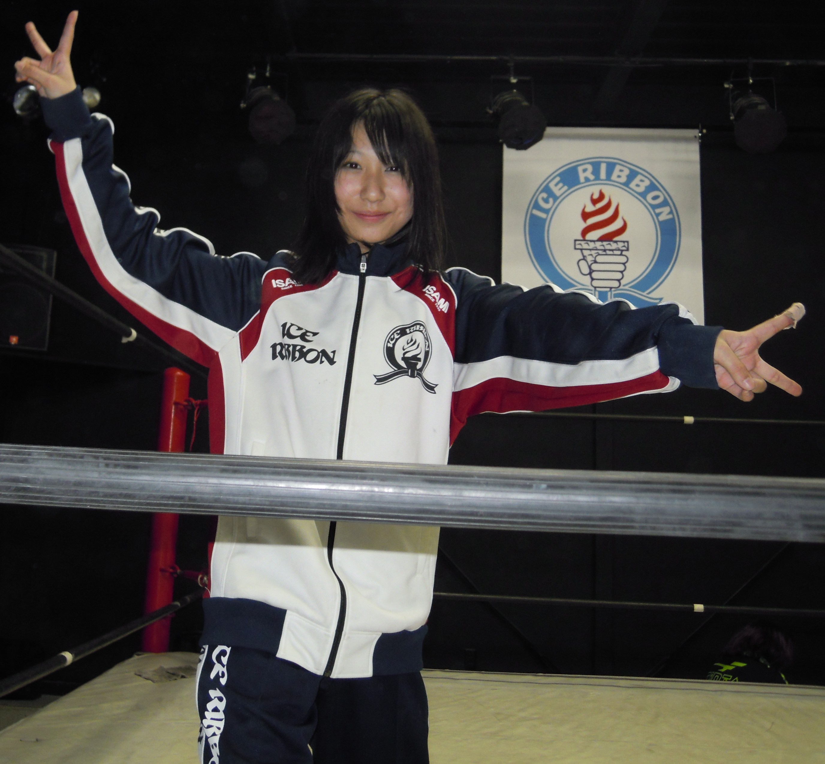 Japanese professional wrestler,Riho.Feb 27 2010 Ice Ribbon.